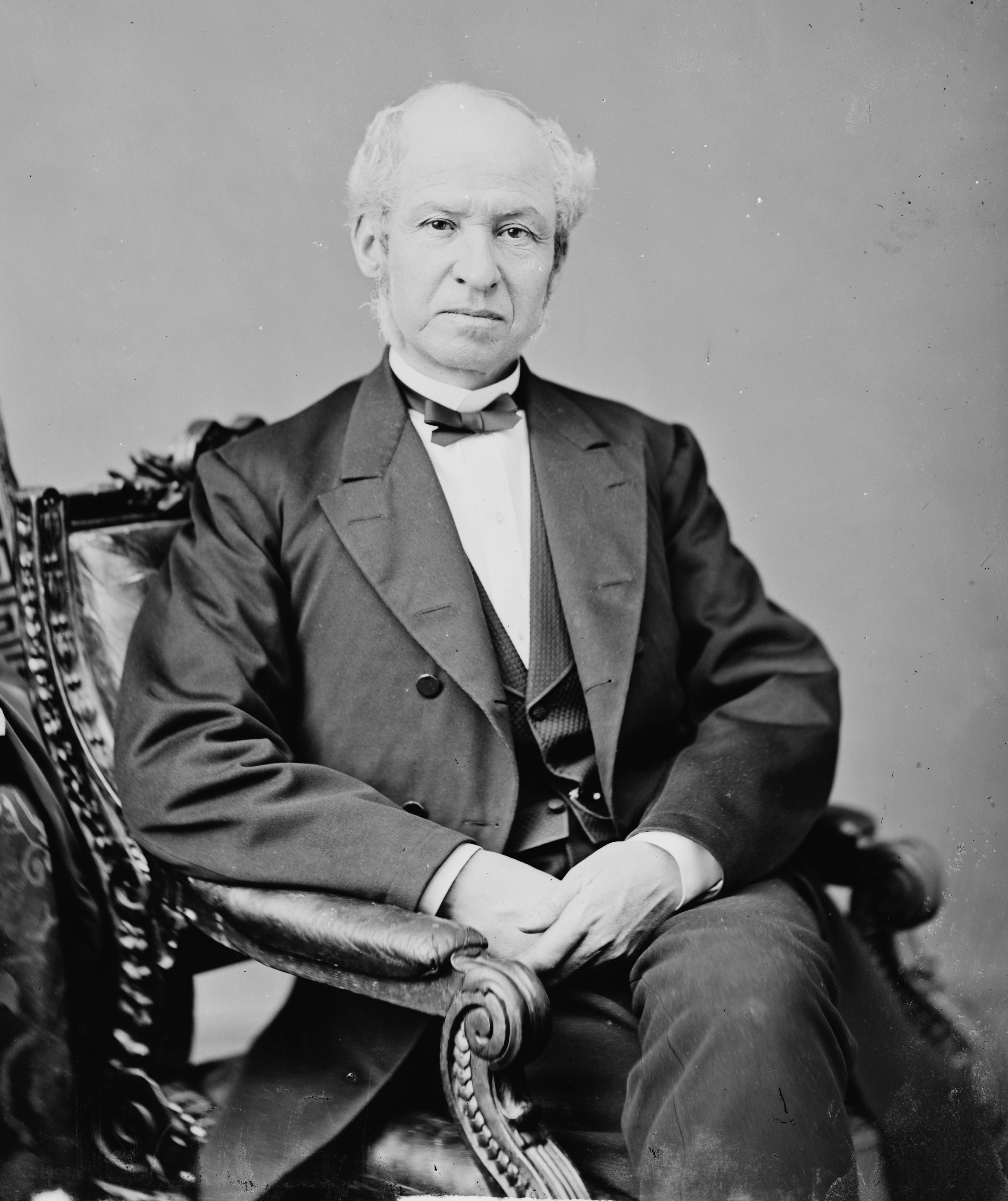 Eugene Casserly. Library of Congress description: "Hon. Eugene Casserly of CAL"